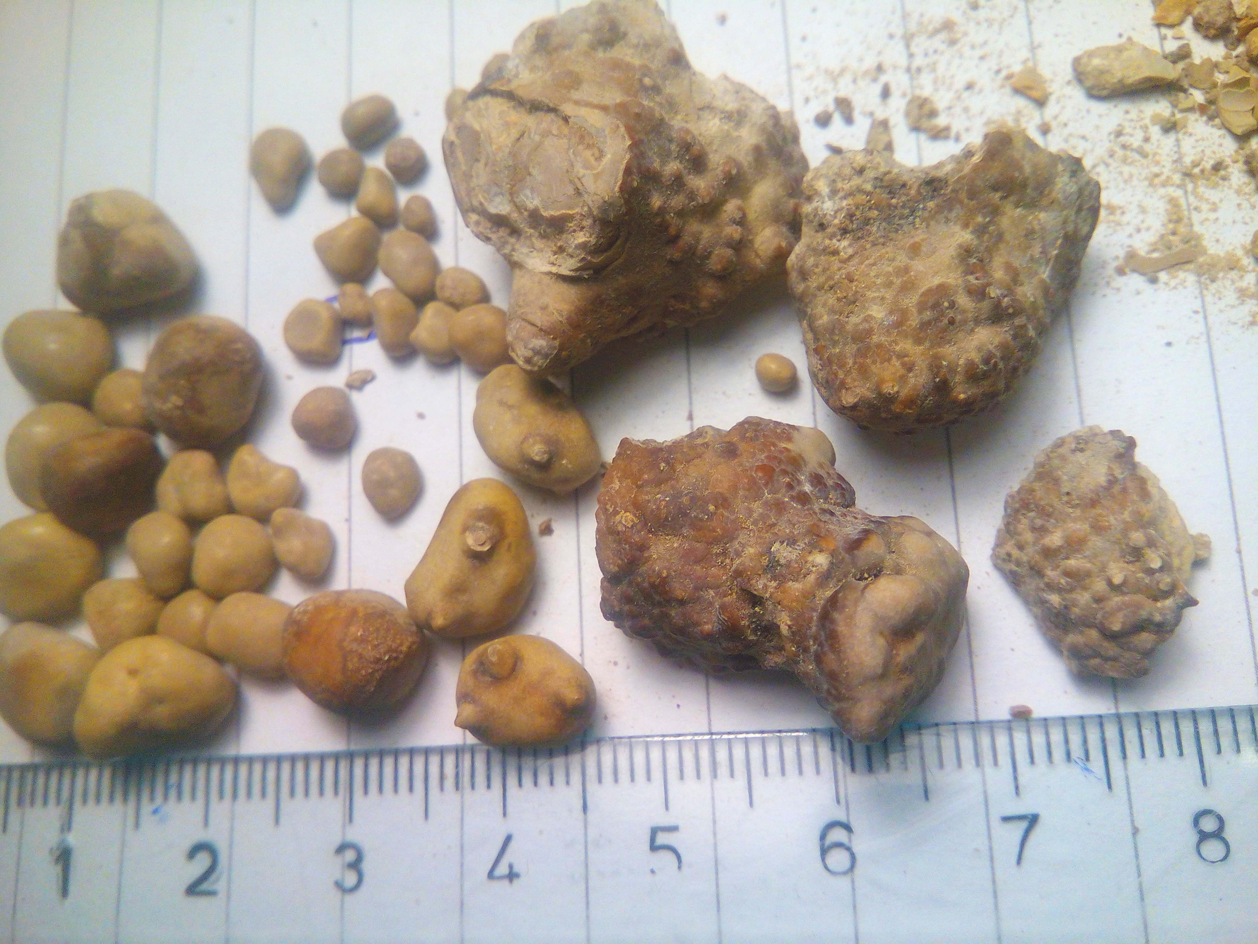 Kidney stones usually comprised of a compound called calcium oxalate, are the result of an accumulation of dissolved minerals on the inner lining of the kidneys.